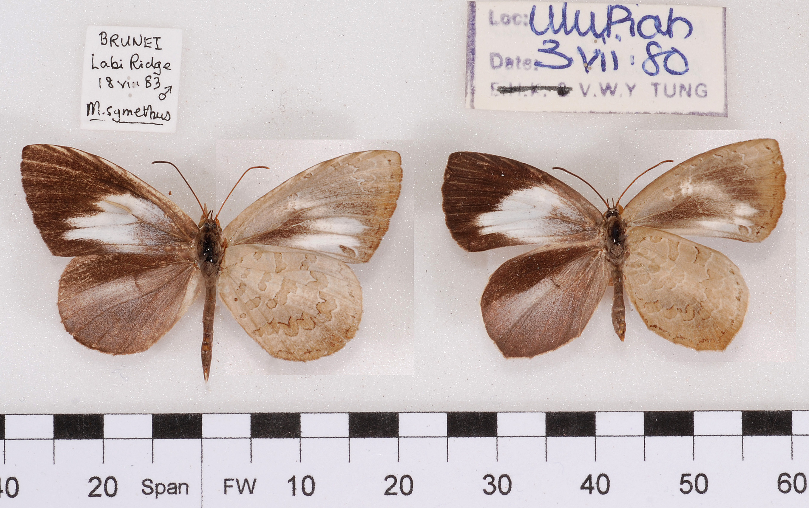 Miletus symethus petronius, set specimens, male: Brunei, female: Sumatra, Alan Cassidy photo.